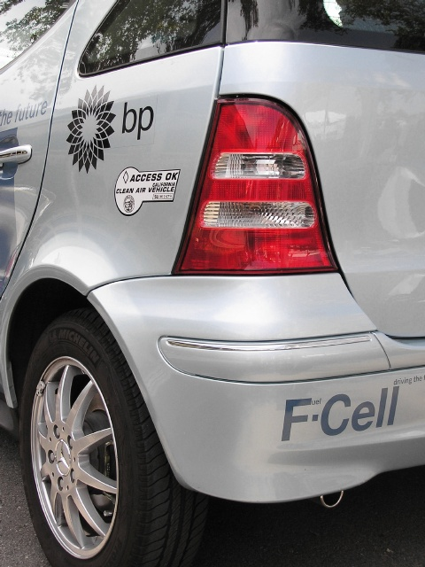 "F-Cell", the DaimlerChrysler fuel cell vehicle (FCV), presented by the California Fuel Cell Partnership